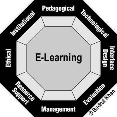 The E-Learning framework has the potential to provide guidance in - planning and designing e-learning and blended-learning materials, - organizing resources for e-learning environment and blended-learning materials, - designing distributed learning systems, corporate universities, virtual universities and cyberschools, designing LMS, LCMS and comprehensive authoring systems (e.g., Omni), - evaluating e-learning, blended-learning courses, and programs, - evaluating e-learning authoring tools/systems, LMS and LCMS, The pedagogical dimension of E-learning refers to teaching and learning. This dimension addresses issues concerning content analysis, audience analysis, goal analysis, media analysis, design approach, organization and methods and strategies of e-learning environments. The technological dimension of the E-Learning Framework examines issues of technology infrastructure in e-learning environments. This includes infrastructure planning, hardware and software. The interface design refers to the overall look and feel of e-learning programs. Interface design dimension encompasses page and site design, content design, navigation, and usability testing. The evaluation for e-learning includes both assessment of learners and evaluation of the instruction and learning environment. The management of e-learning refers to the maintenance of learning environment and distribution of information. The resource support dimension of the E-Learning Framework examines the online support and resources required to foster meaningful learning environments. The ethical considerations of e-learning relate to social and political influence, cultural diversity, bias, geographical diversity, learner diversity, information accessibility, etiquette, and the legal issues. The institutional dimension is concerned with issues of administrative affairs, academic affairs and student services related to e-learning.